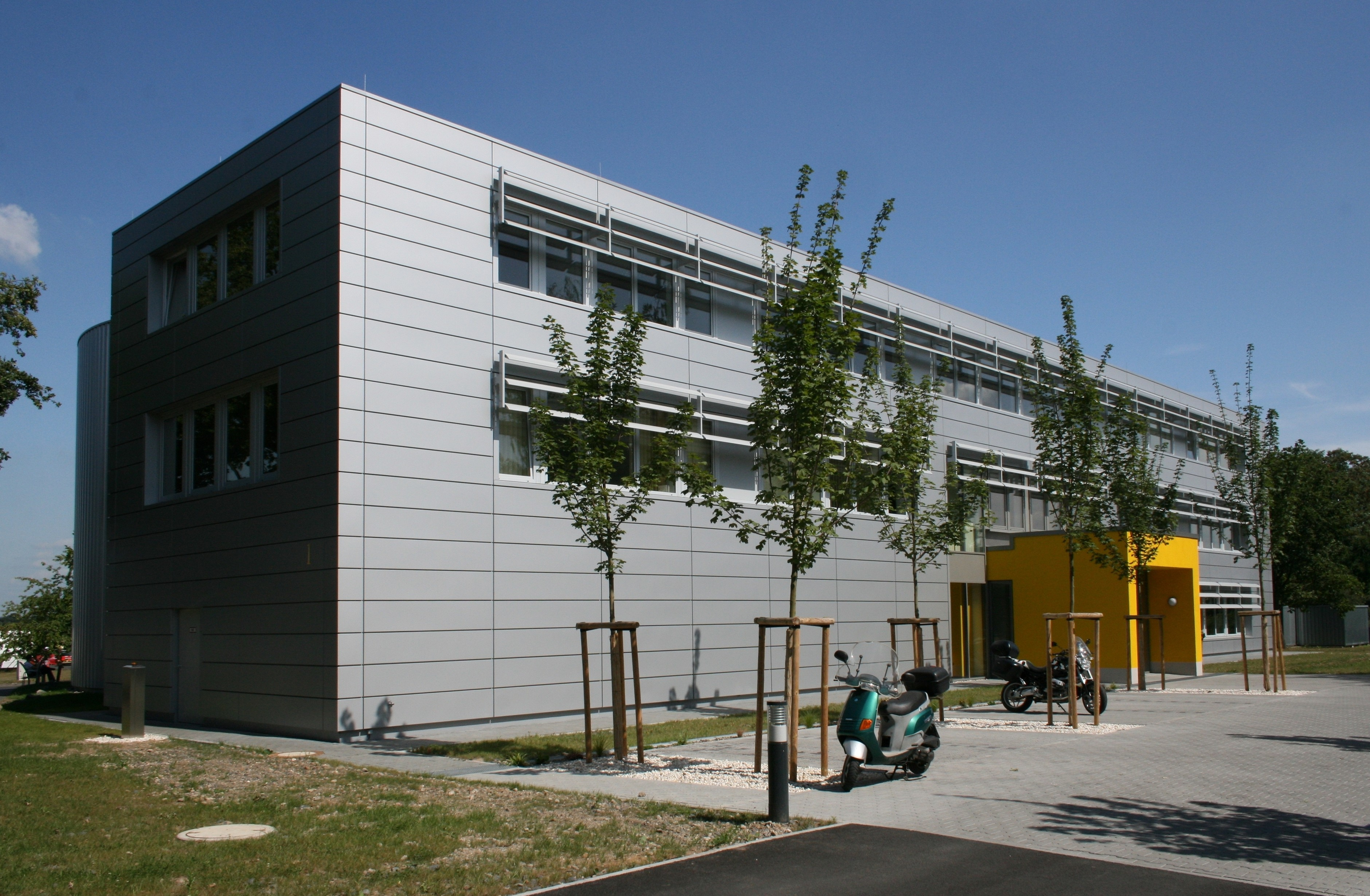 Building ADAC HEMS-Academy at German Airfield Bonn/Hangelar